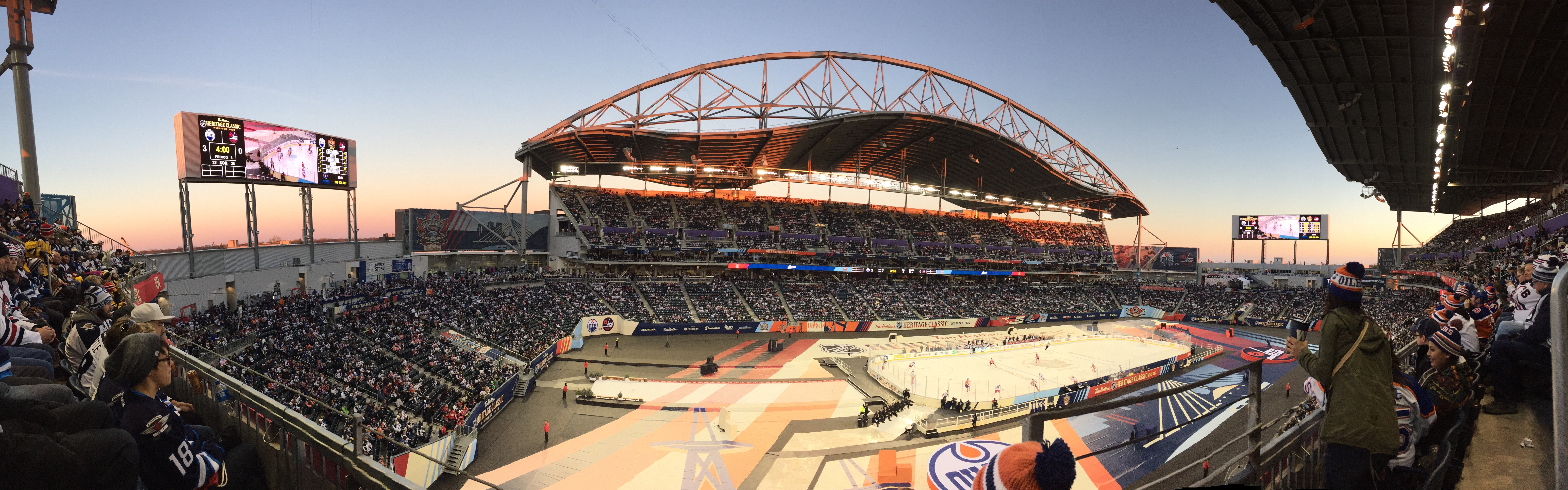 Panorama during gameplay of the 2016 Heritage Classic at Investors Group Field late in the game with the Edmonton Oilers leading the Winnipeg Jets by a score of 3-0.